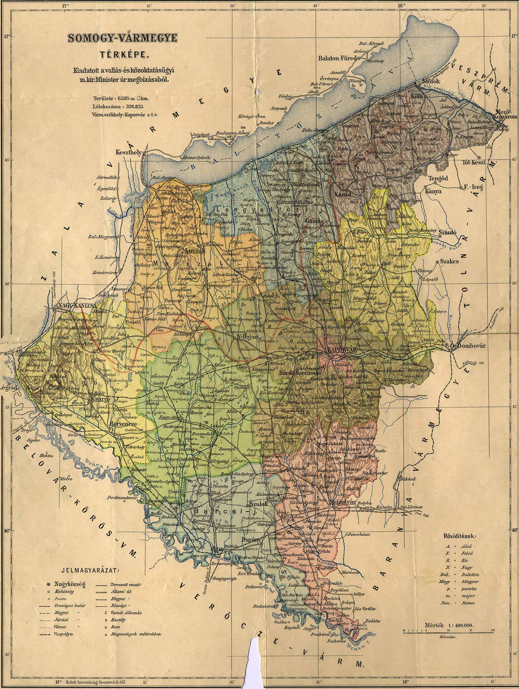 Administrative map of the county of Somogy in the Kingdom of Hungary